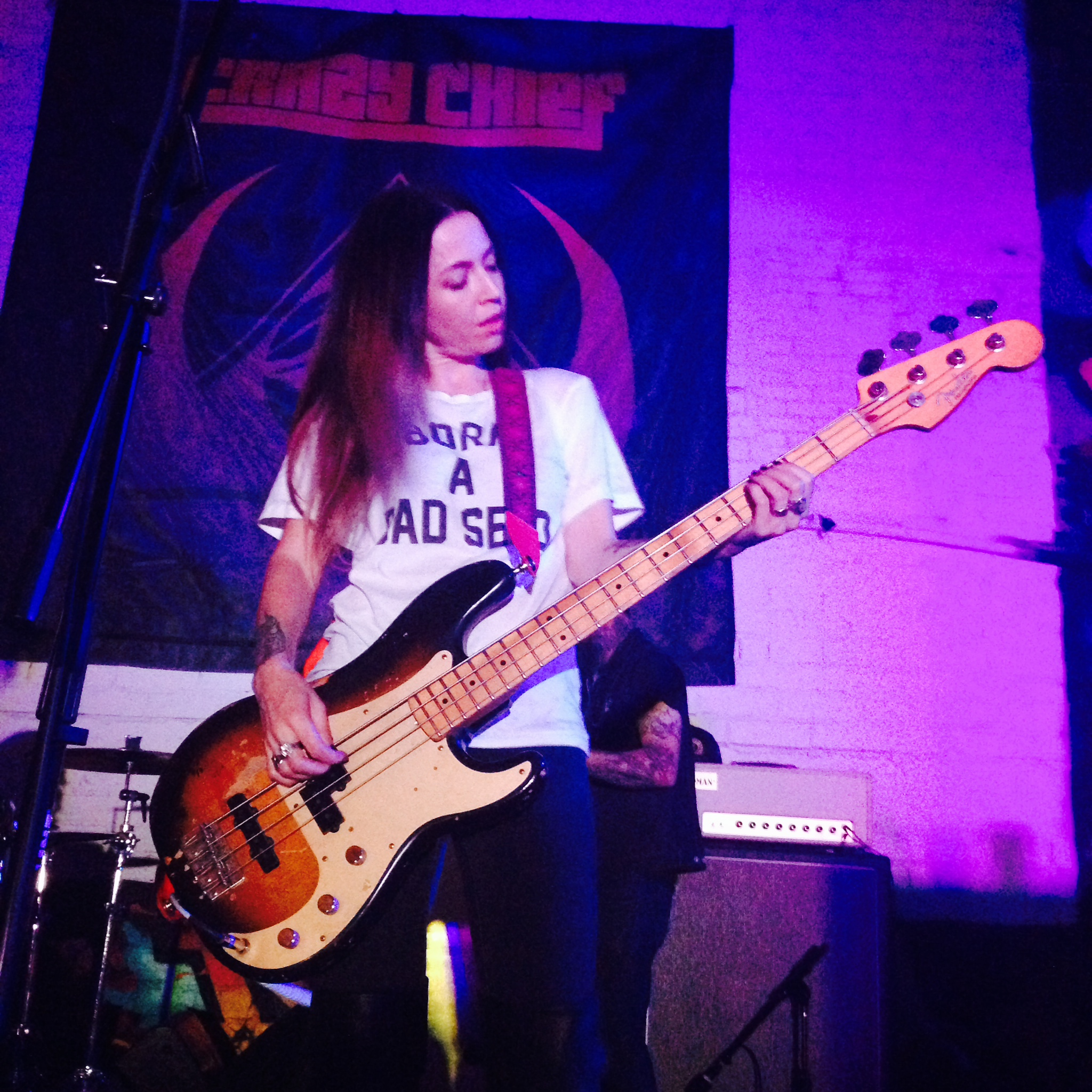 Crazy Chief's Roxie Amoroso on bass